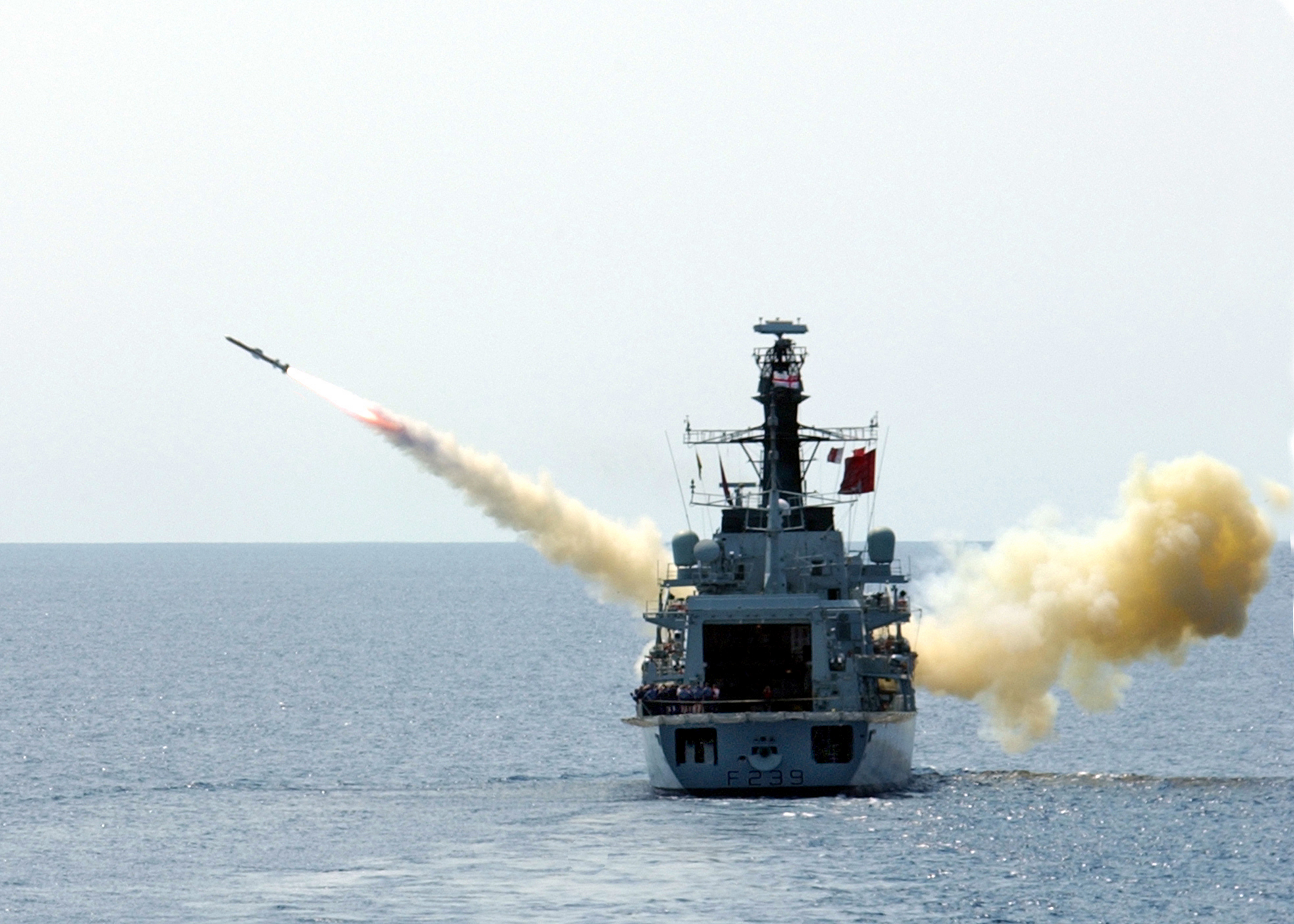 The Atlantic Ocean (Jun. 11, 2002) -- British frigate HMS Richmond (F-239) launches an AGM-84A “Harpoon” missile during a joint U.S. and British exercise in which the decommissioned ship USS Wainwright was sunk in the Atlantic Ocean. Ships used in these types of exercises are inspected and made environmentally safe before sinking, and are disguised to create reefs for marine life. U.S. Navy photo by Photographer’s Mate 2nd Class Isaac Merriman. (RELEASED)